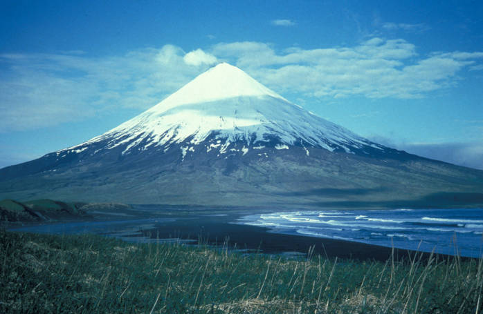 Alaska Maritime National Wildlife Refuge Photo: USFWS